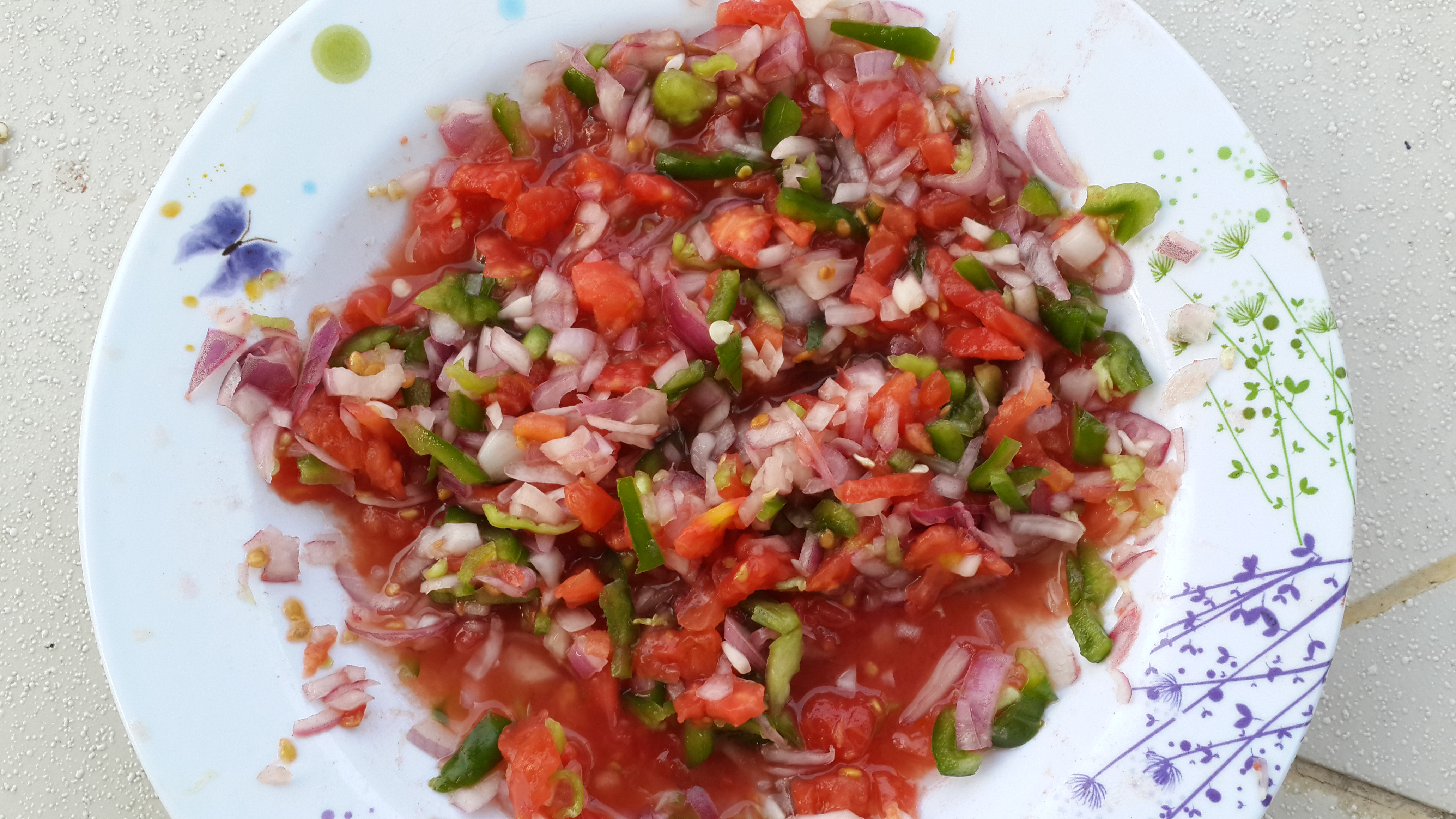 A mixture of precisely cut Tomatoes, Onions some garlic and a little bit of lemon and pepper. This is an image of food from Tanzania